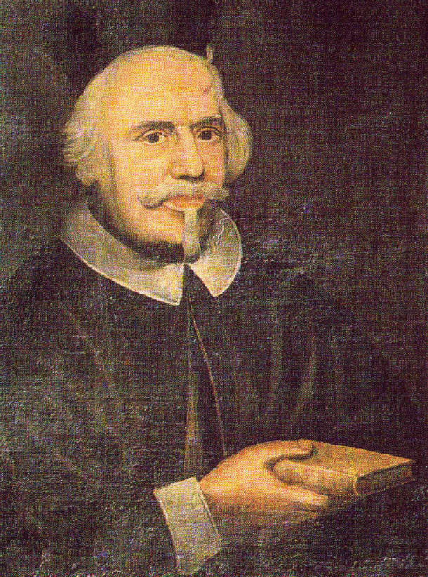 Leone Allacci (Leo Allatius), Italy